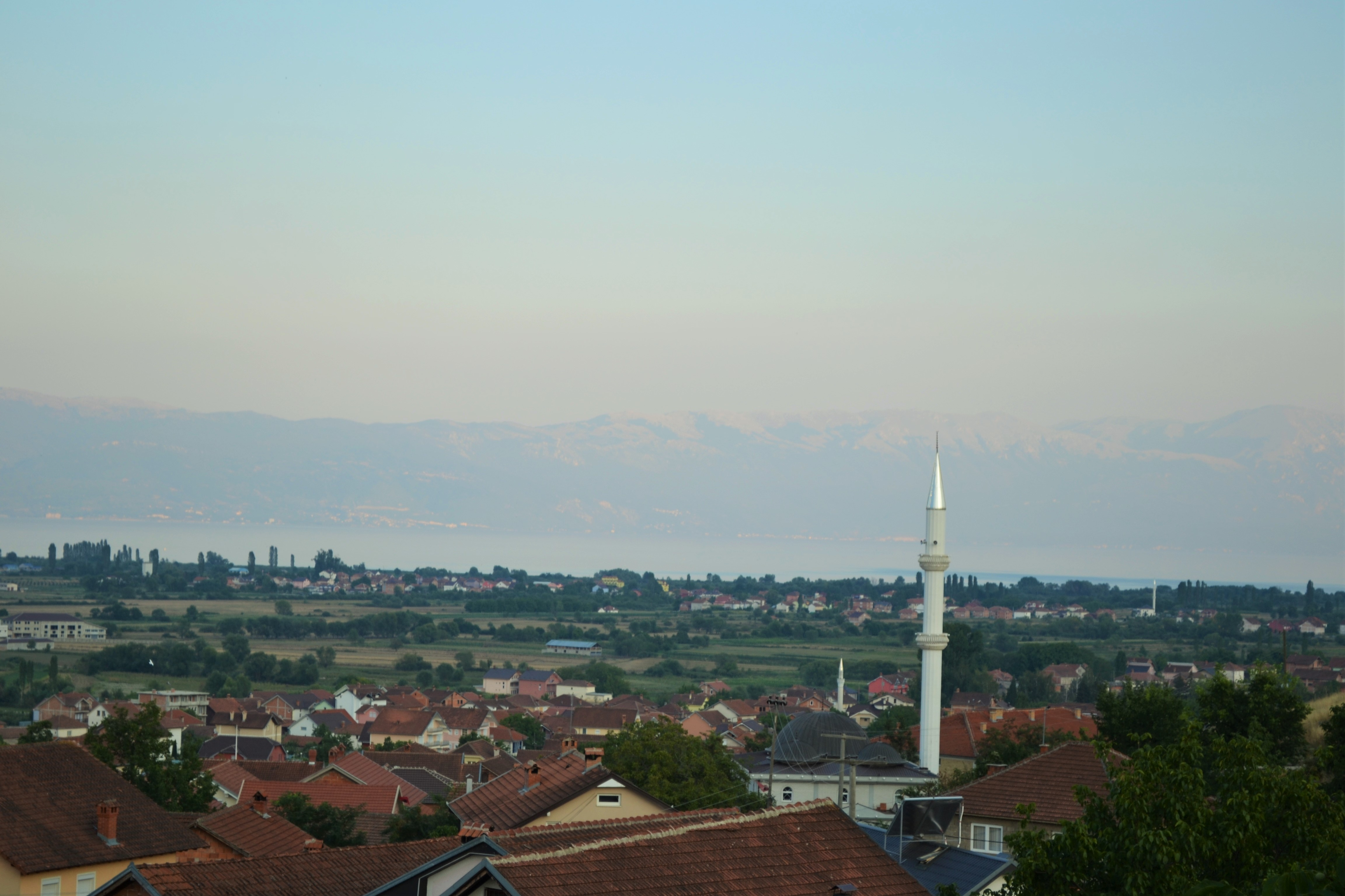 Zagracani, and in background are Teferic and Shum villages, and Lake of Ohrid